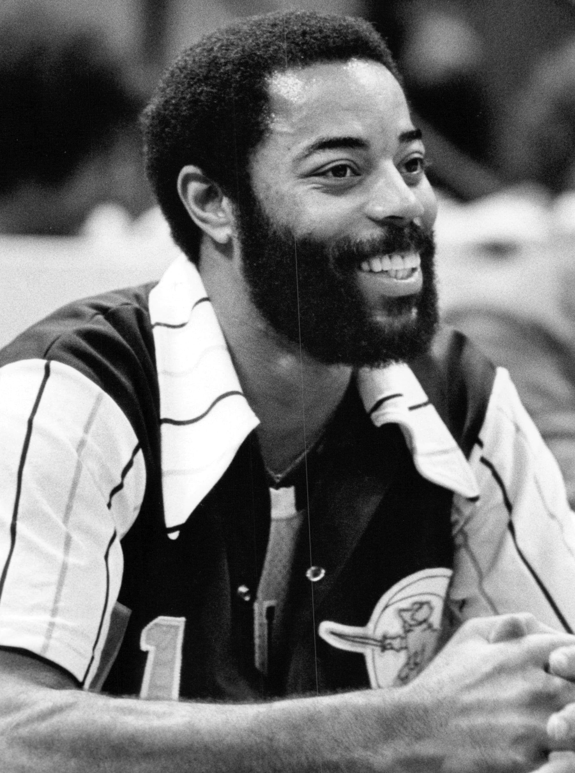 Professional basketball player Walt Frazier